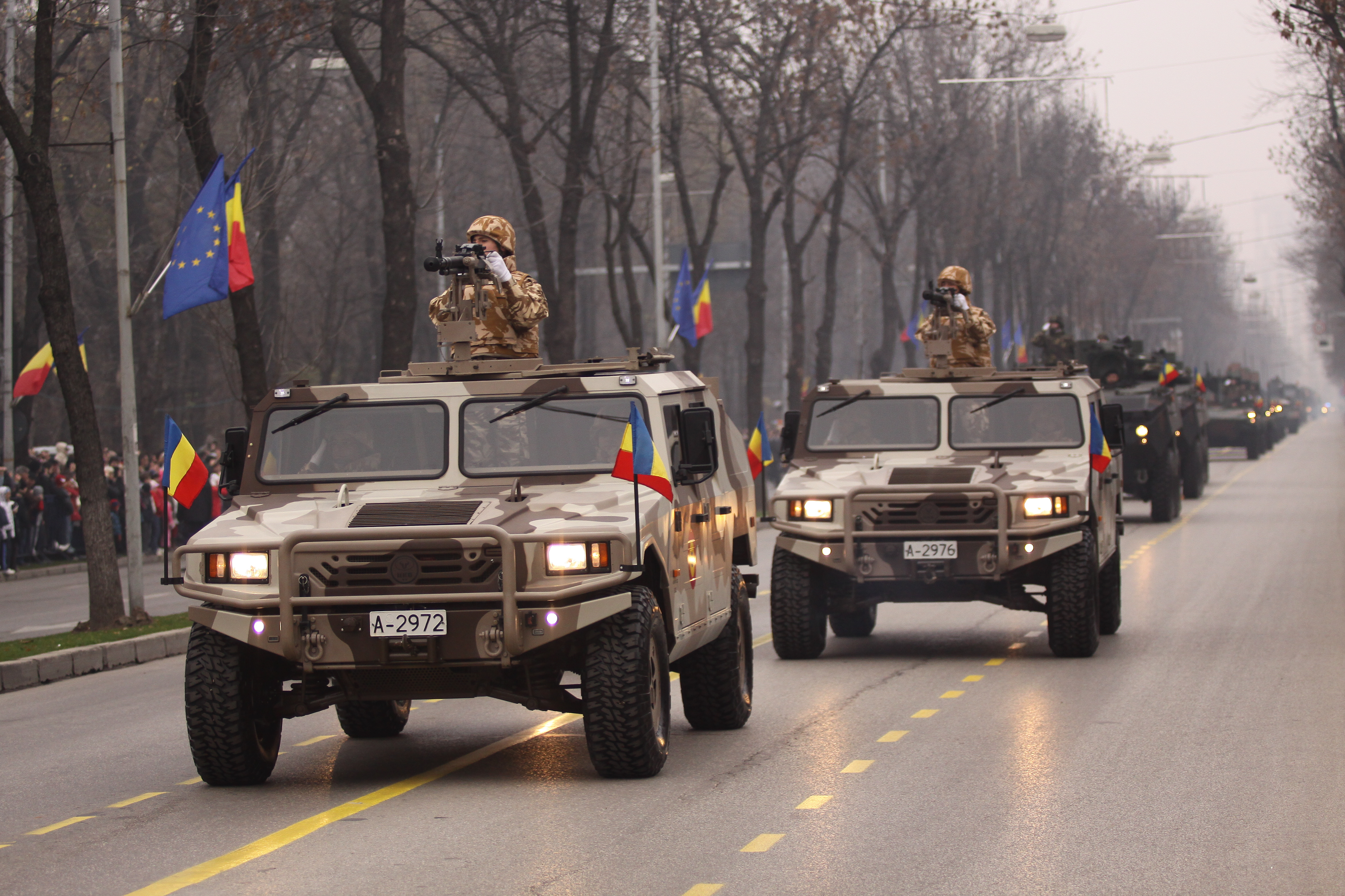 Romanian URO VAMTAC vehicles during the Romanian National Day military parade, 1st December 2009.